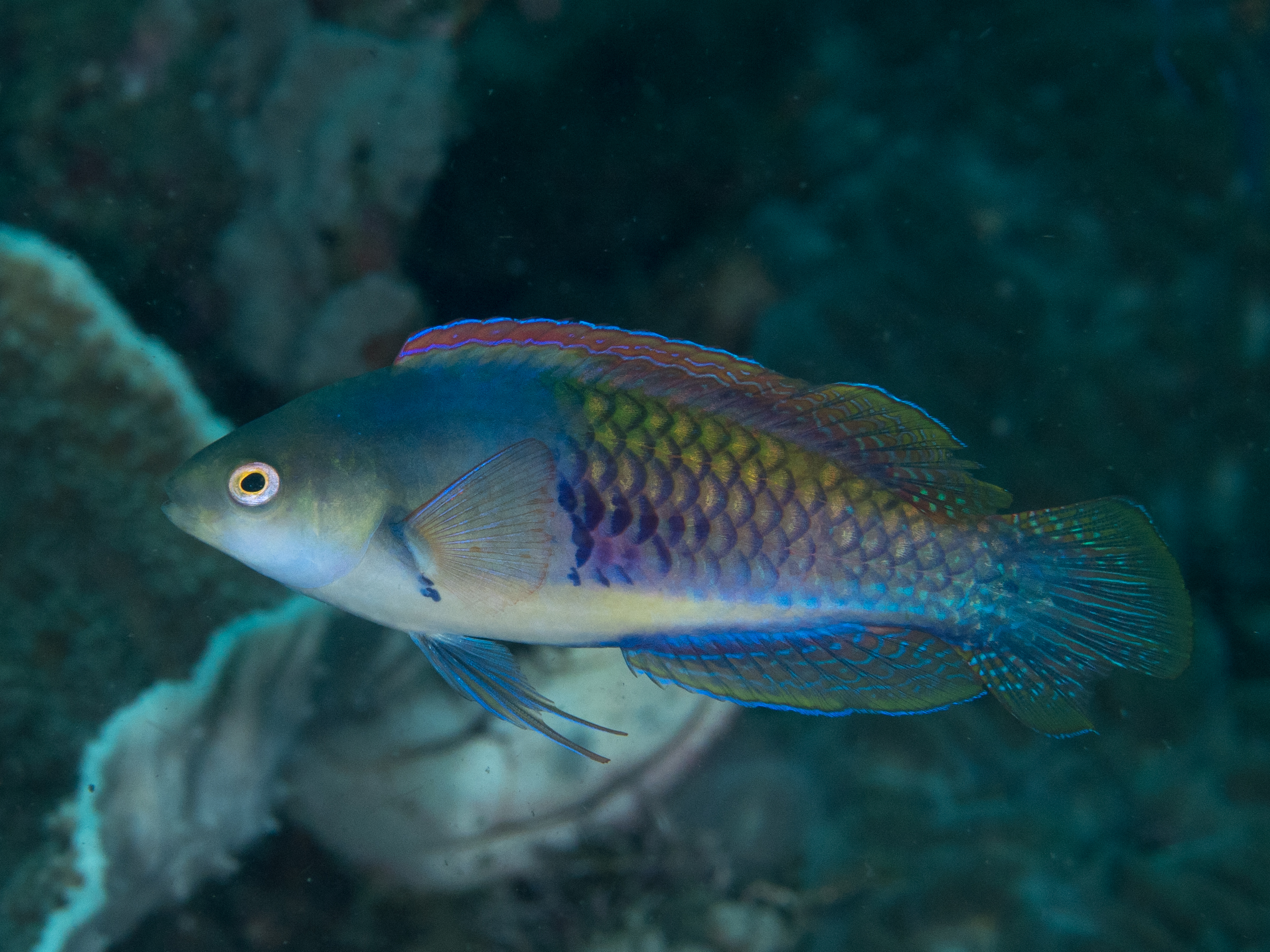 Lembeh, Indonesia - Blueside wrasse (Cirrhilabrus cyanopleura)